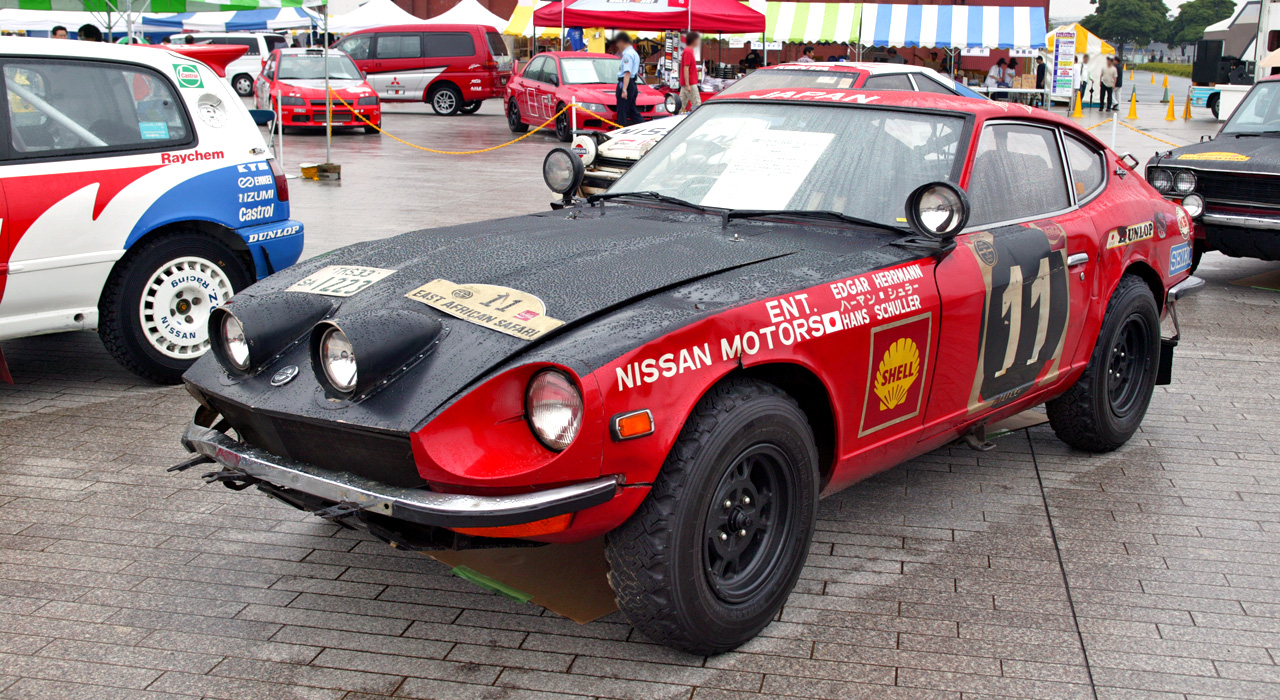 1971 Datsun Fairlady 240Z, the winning car of 19th East African Safari Rally